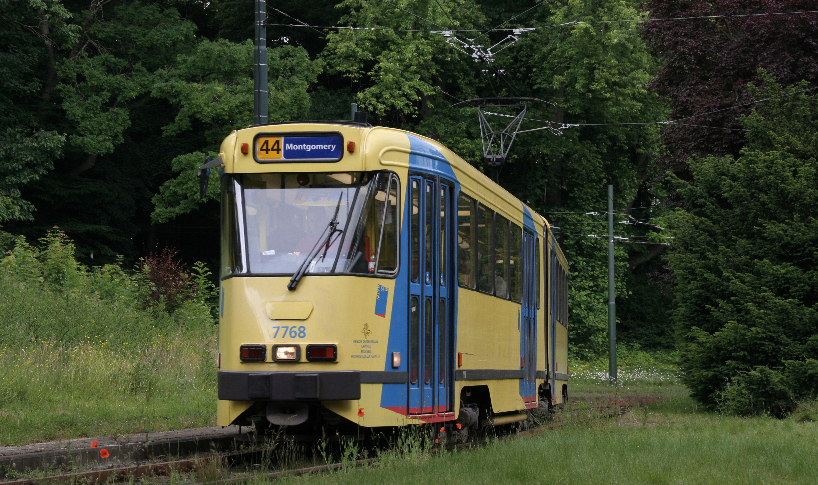 Brussel PCC tram in Tervuren